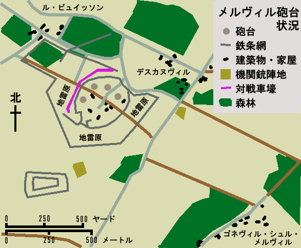 Operation Tonga abstract map added ja's caption, based on User:John N.'s work Image:Merville-Karte.png